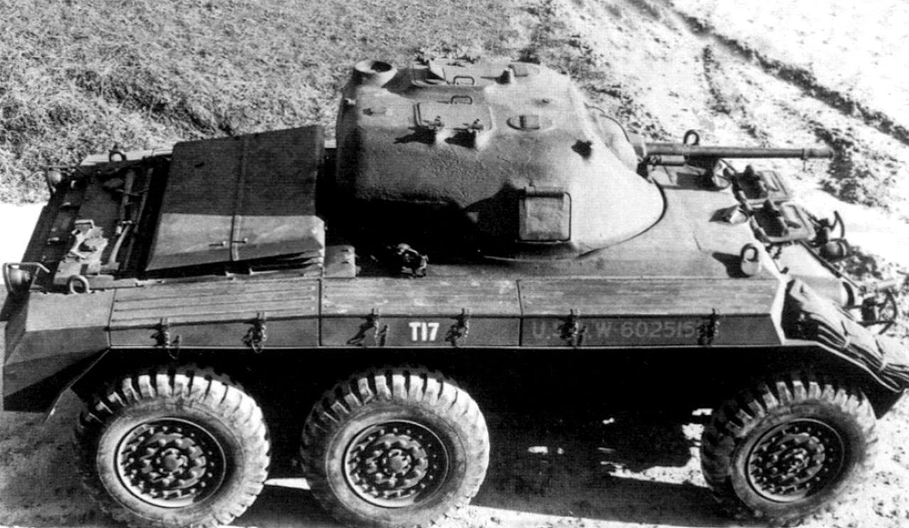 T17 Deerhound armored car